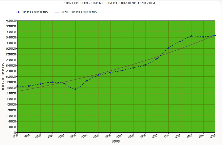 Singapore Changi Airport - Aircraft Movements (1998-2015)